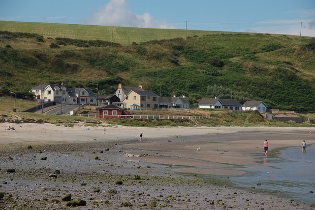 Browns Bay, Islandmagee. Browns Bay is a small sheltered beach at the north of Islandmagee. It can be very popular during summer week-ends. In the winter, during northerlies, the road can be covered by wind-blown sand to a depth of six inches. See also 1419034.